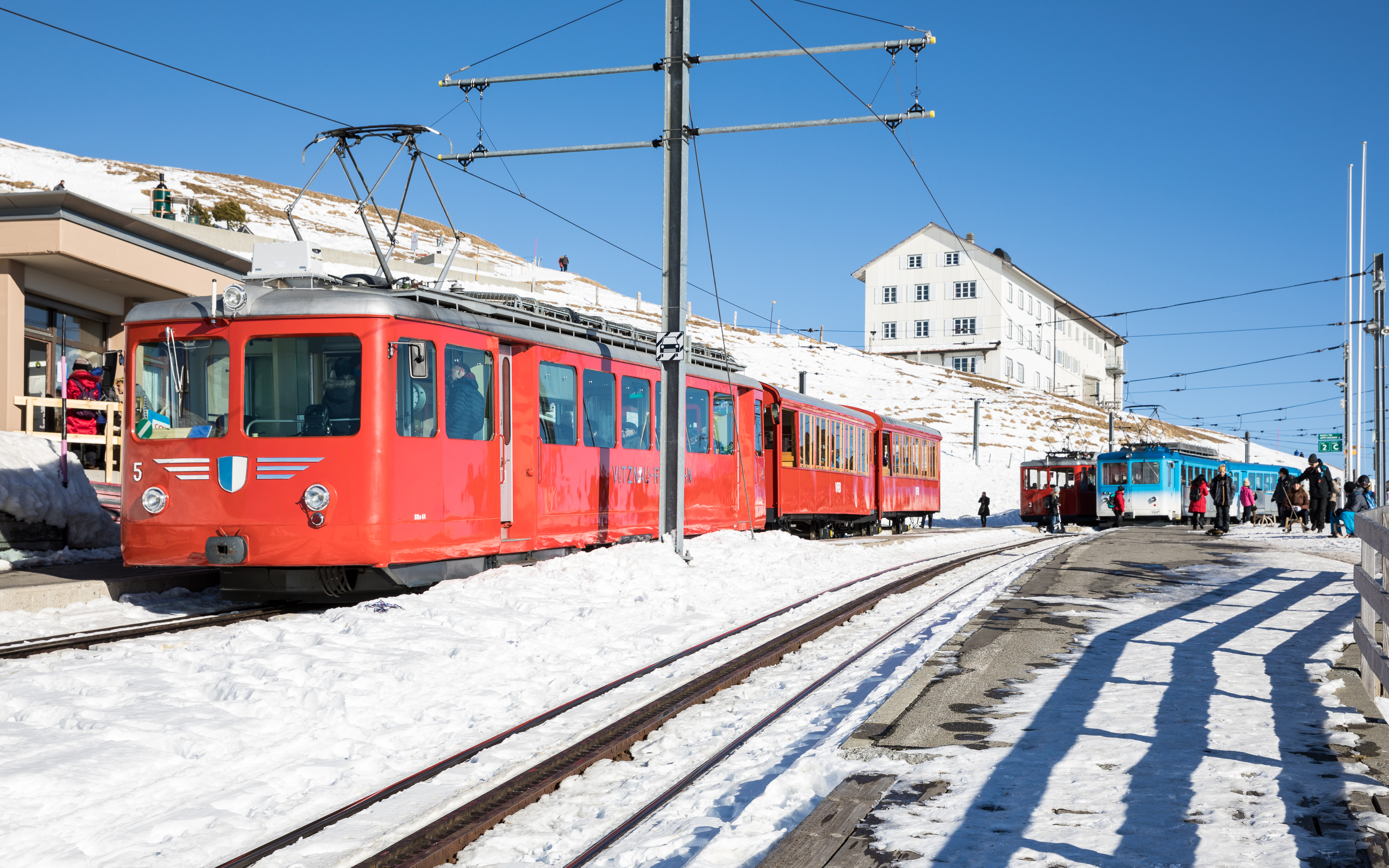 Rigi Kulm train station with trains of Vitznau-Rigi-Bahn (red) and Arth-Rigi-Bahn (light blue)